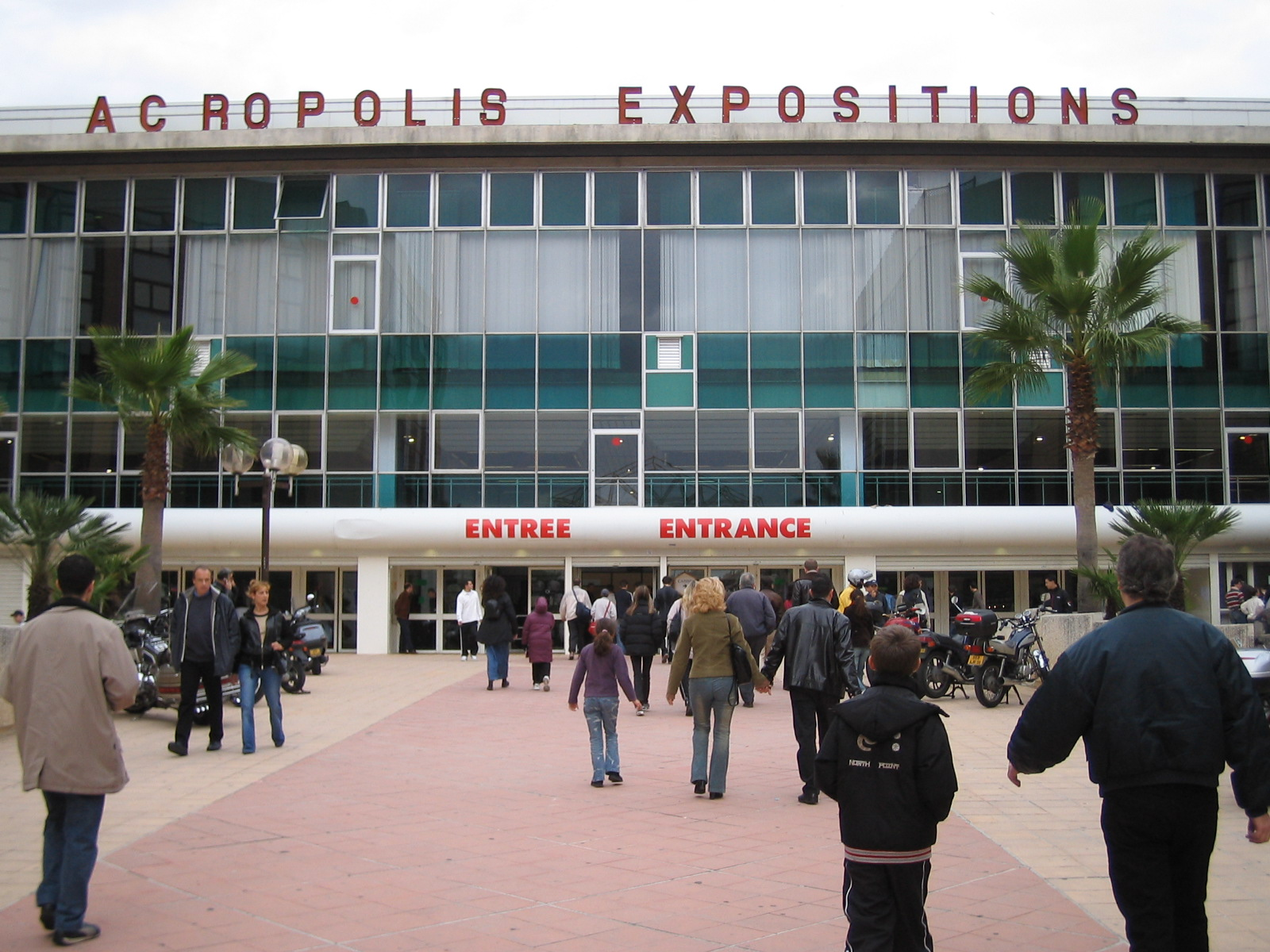 The entrance of palais des expositions Acropolis in Nice, Alpes-Maritimes, France, in 2003.